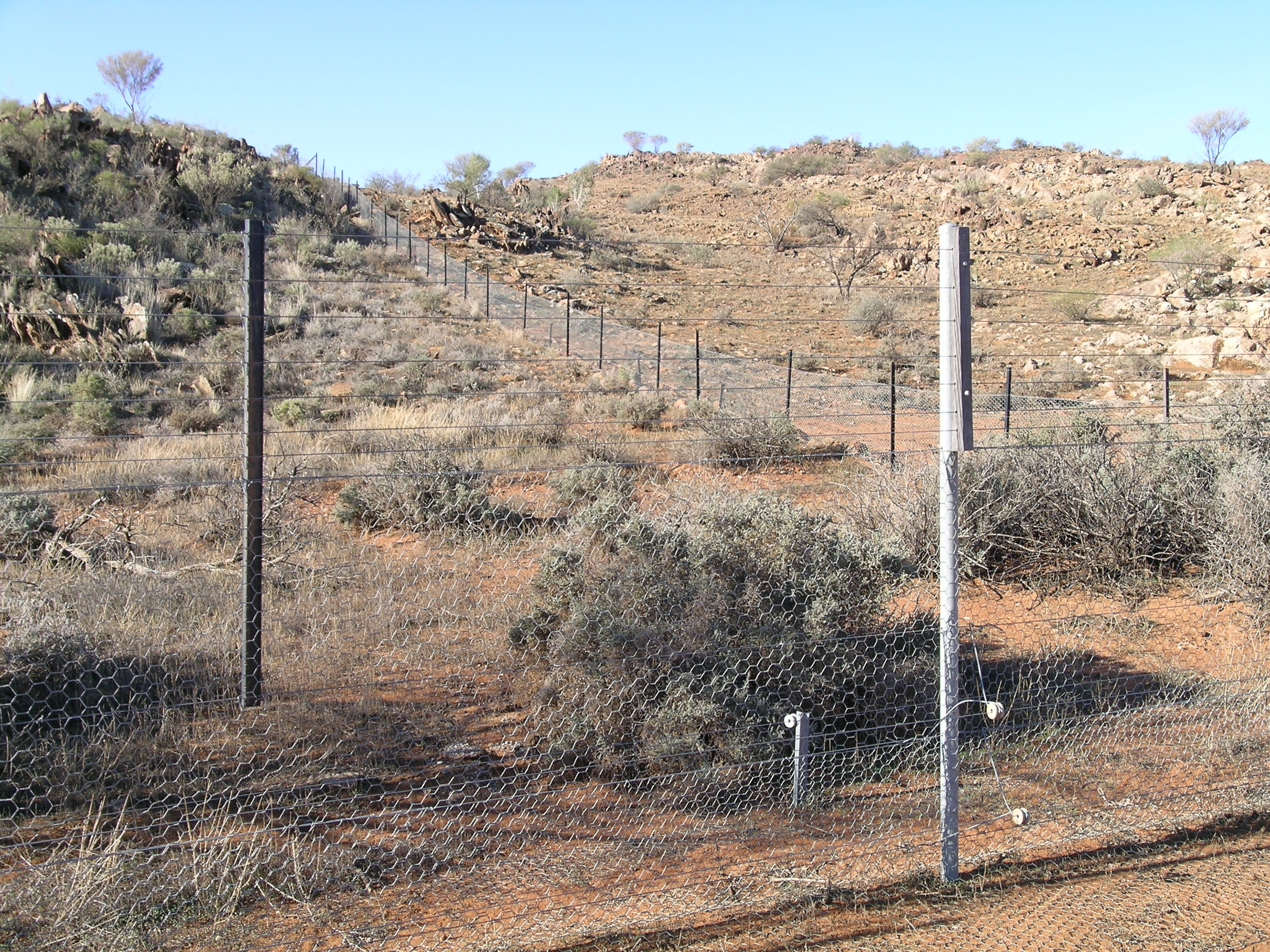 Overgrazing caused by native fauna is shown in the upper right, Western NSW.